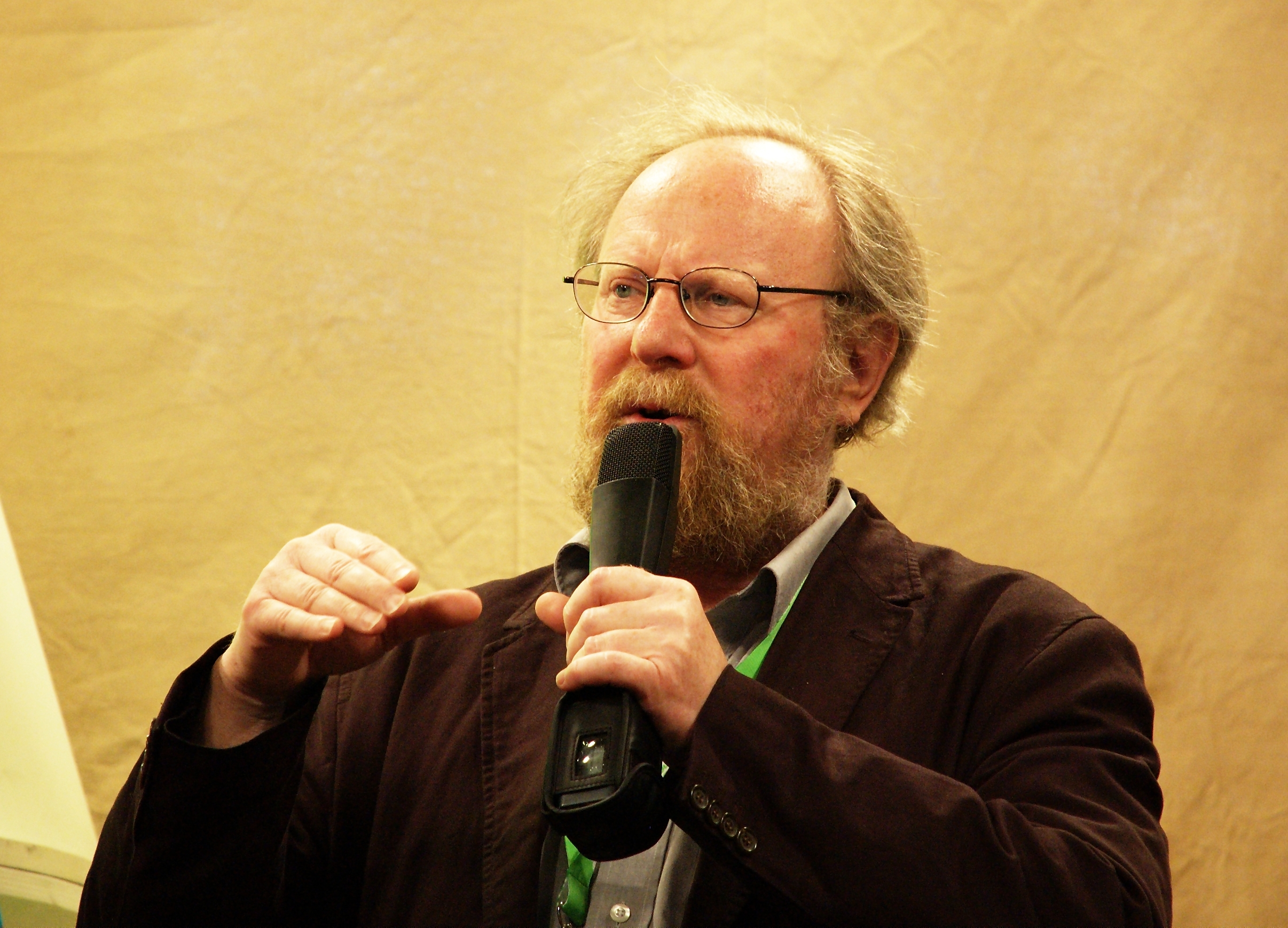 Wolfgang Thierse at the festival Berlin08